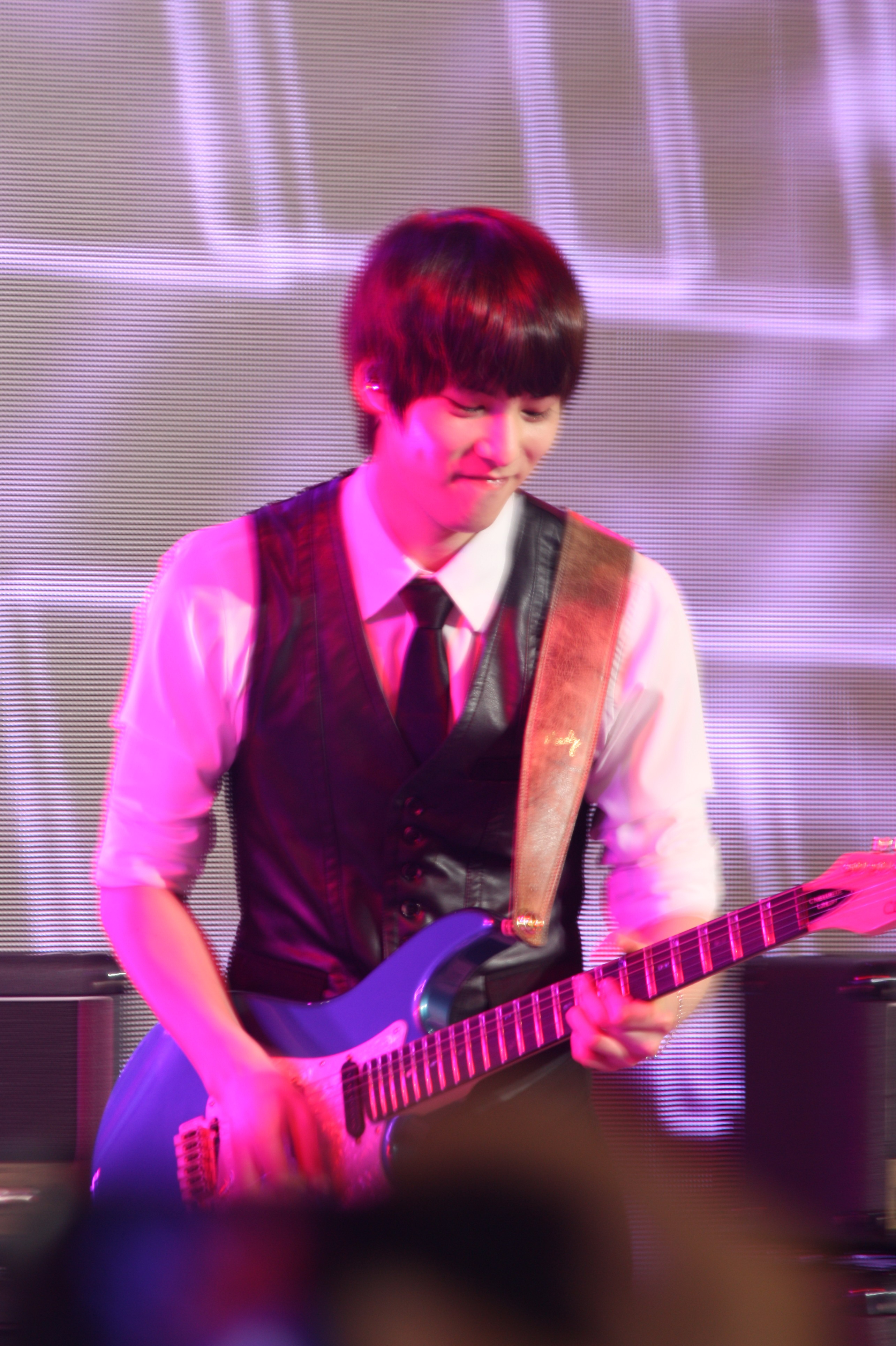 Performing for the Scotch Puree 10 Berry in Thailand